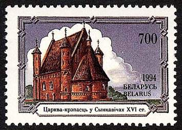 Stamp of Belarus